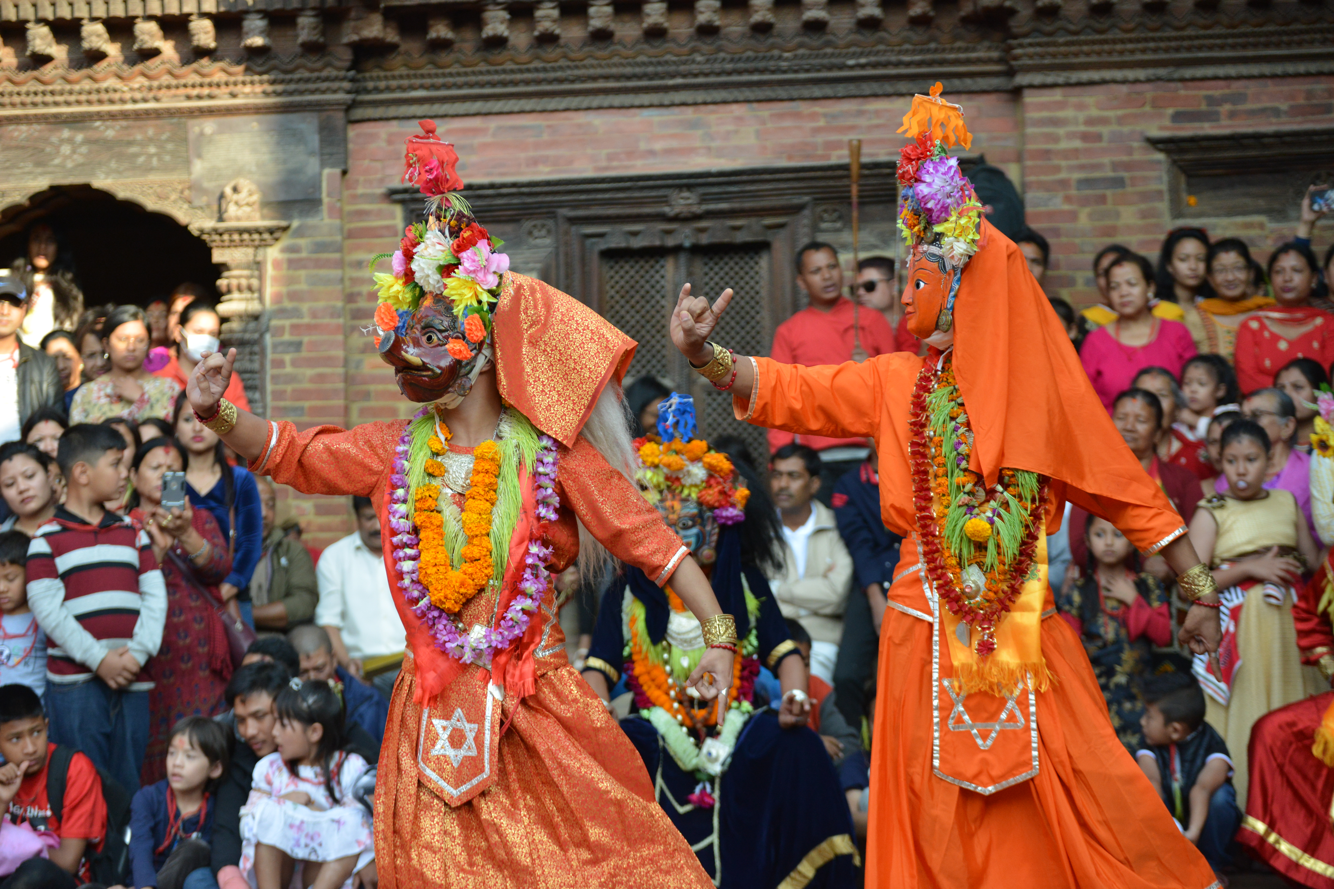 Started in 1641, Kartik Naach (Kartik Dance) was a 27 days long traditional dance and drama festival performed at Patan Palace, a World Heritage Site.